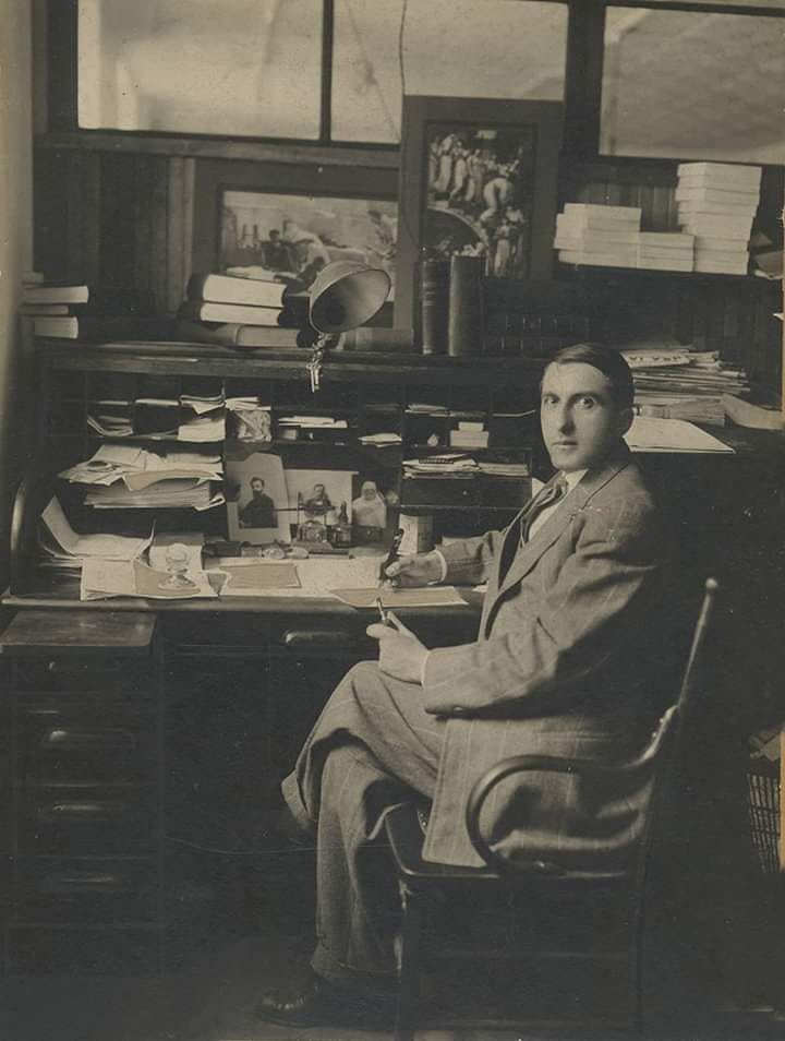 Siamanto (1878-1915), prominent Armenian writer